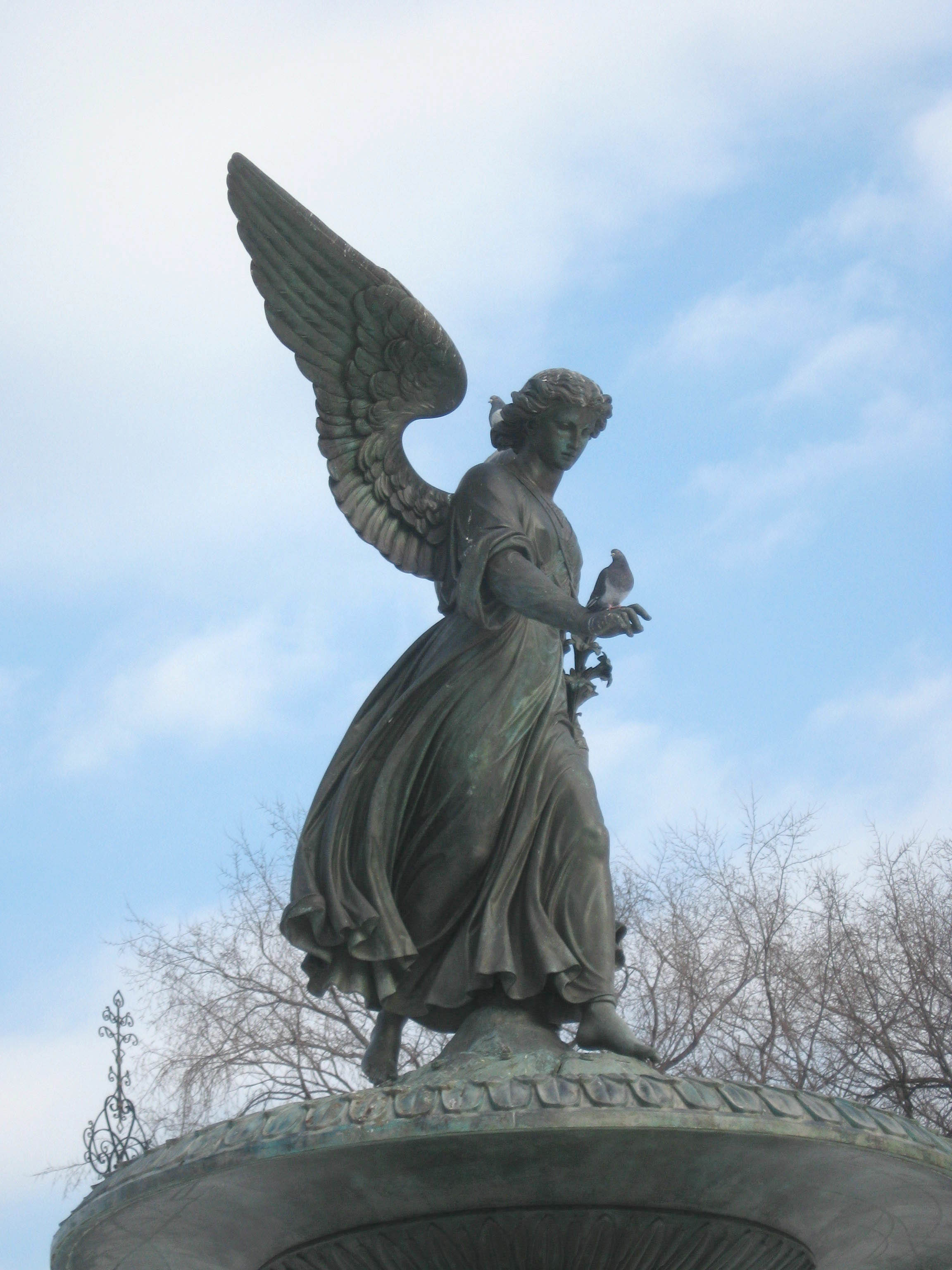 Looking east and up at Bethesda angel on a mostly sunny afternoon with snow providing fill light. See also File:Bethesda Fountain-atp tyreseus.jpg